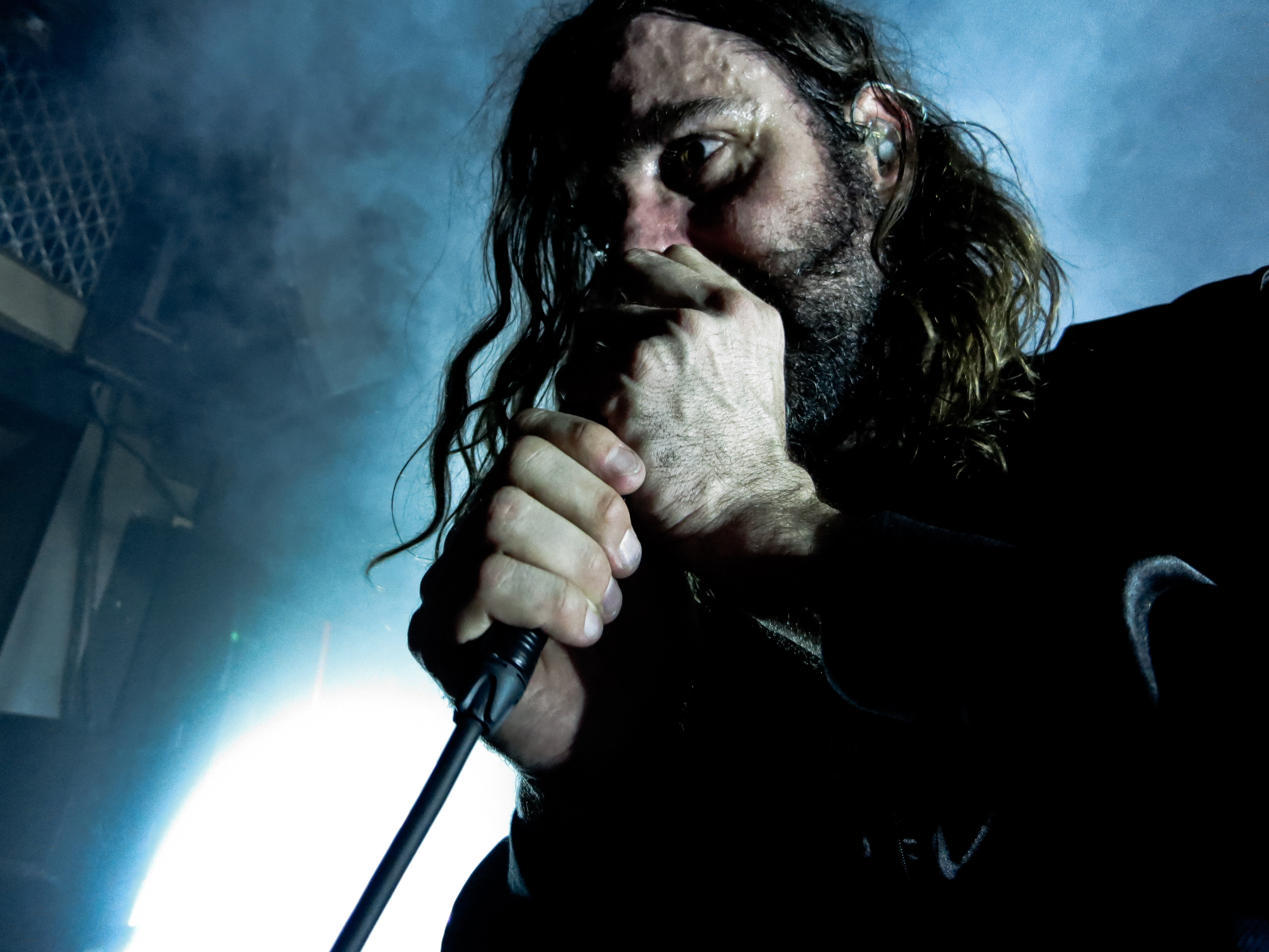 Andrew Wyatt playing with Miike Snow